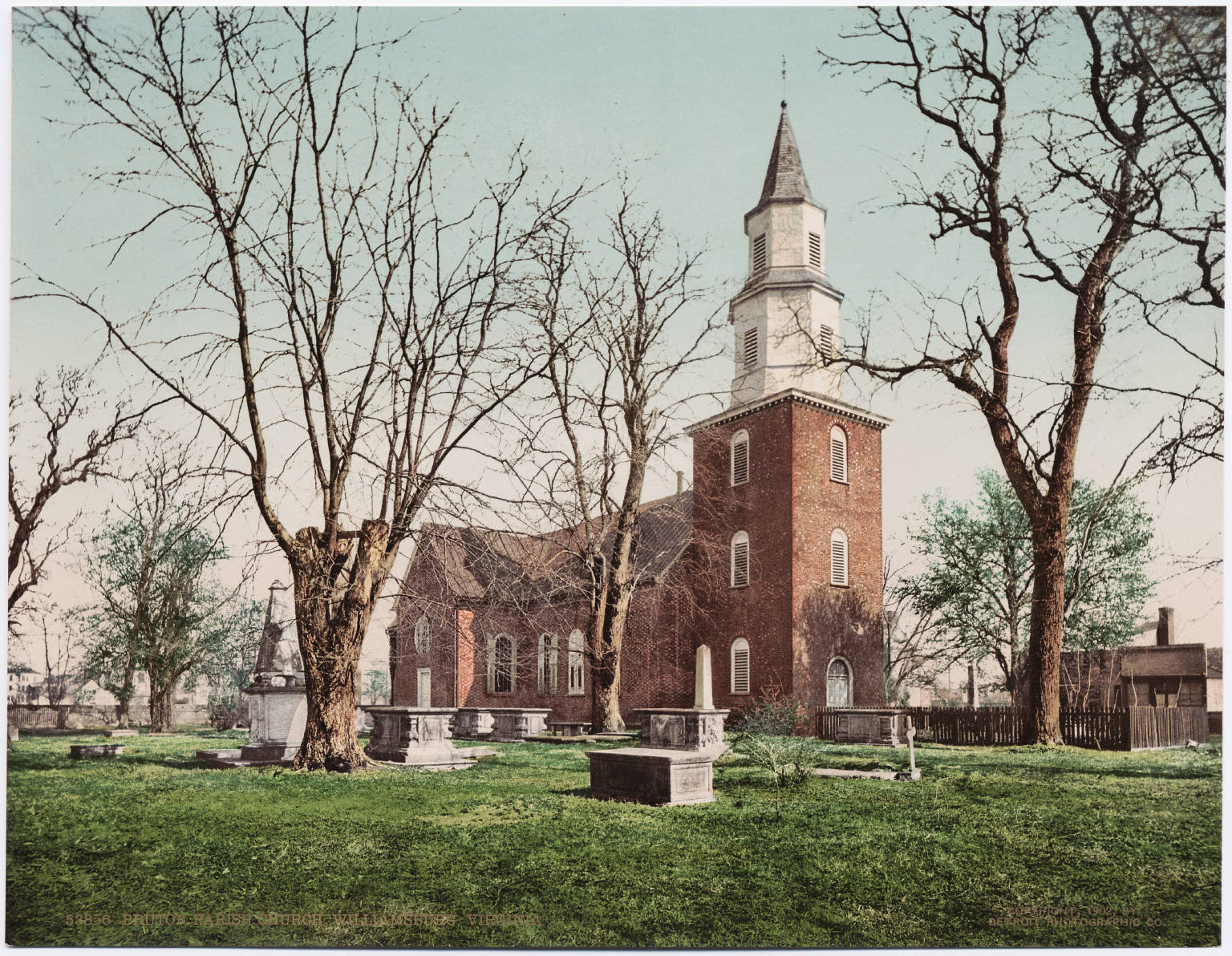 A photochrom postcard published by the Detroit Photographic Company. View of Bruton Parish Church, Williamsburg, Virginia, circa 1902.